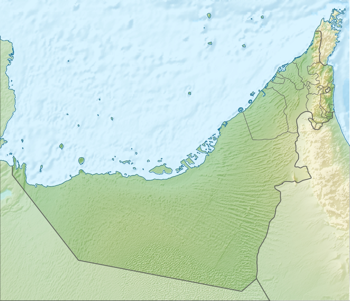 Location map of the United Arab Emirates Equirectangular projection, N/S stretching 109 %. Geographic limits of the map: * N: 26.5° N * S: 22.4° N * W: 51.4° E * E: 56.6° E